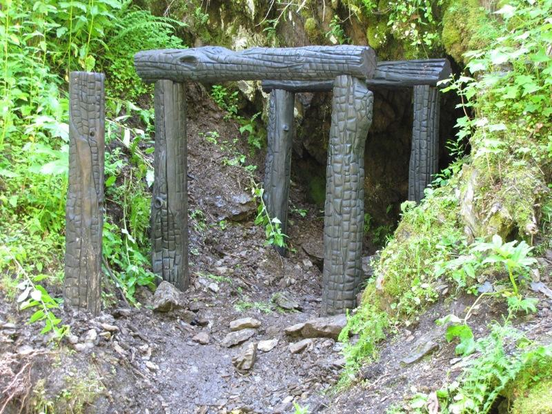 Entrance to Pulaski Tunnel near Wallace, Idaho; restored in 2010